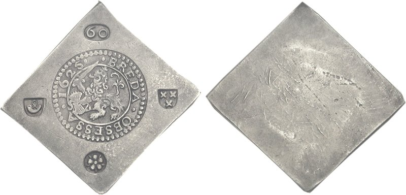 Low Countries, Breda. AR Zestig stuiver klippe. Siege issue. Emission of January 1625. • BREDA • OBSESSA • 1625, crowned lion rampant left, holding bundle of arrows in left forepaw and sword in raised right; all within linear and pearl border; 60 stamp above; coat-of-arms of Orange and civic coat-of-arms stamp to left and right; rose stamp below Blank. Gelder 227; Delmonte, Argent 320; Mailliet 82.